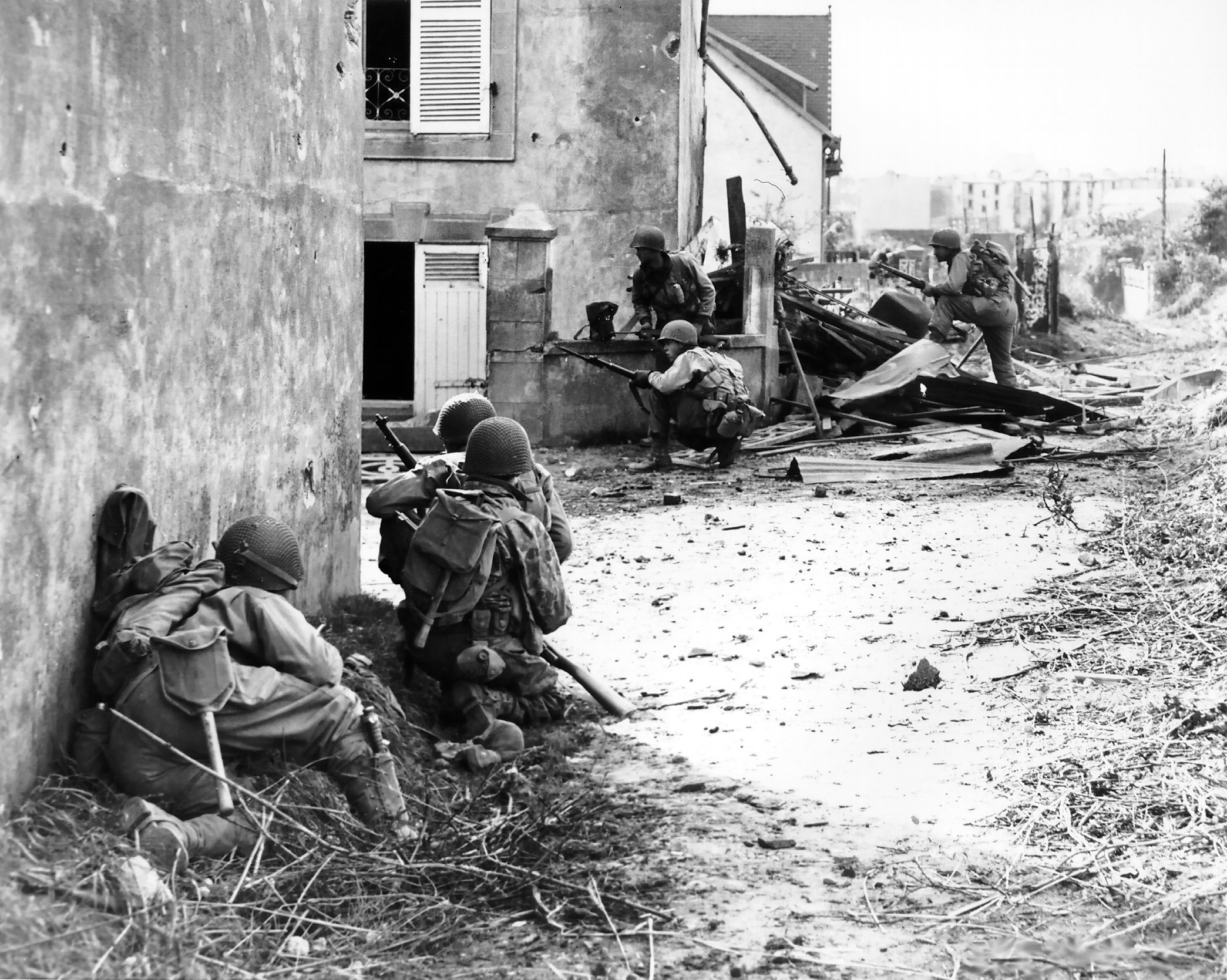 Members of the 2md Infantry Division advance under machine gun fire into the outskirts of Brest, France. 9 September 1944